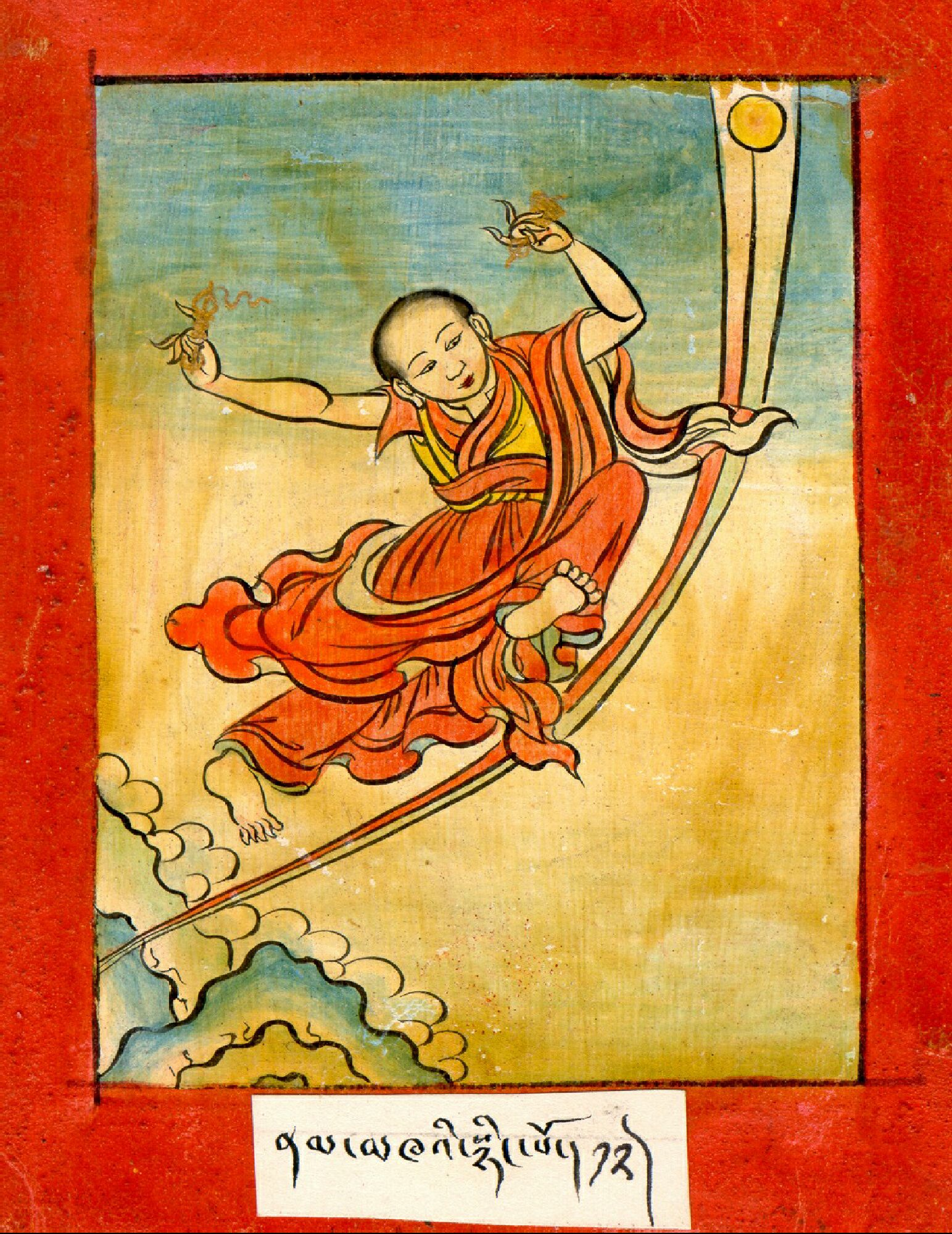 Namkhai Nyingpo.jpg, 8th Century, Disciple of Padmasambhaba